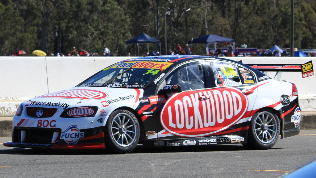 Fabian Coulthard at the 2012 Coates Hire Ipswich 300